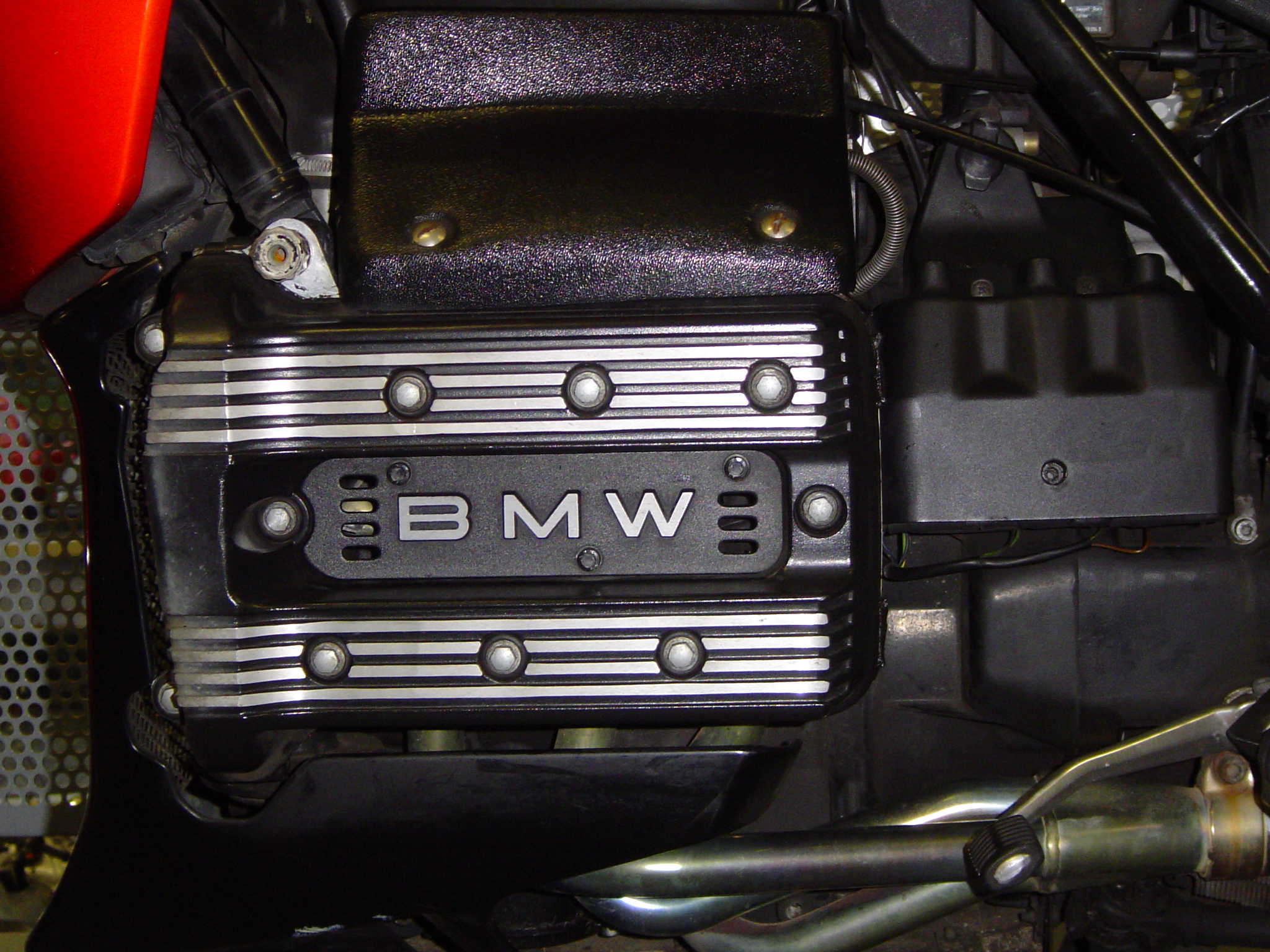 Flying brick.